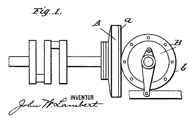 Excerpt from diagram of 761,384 for Friction Driving Mechanism by John W. Lambert